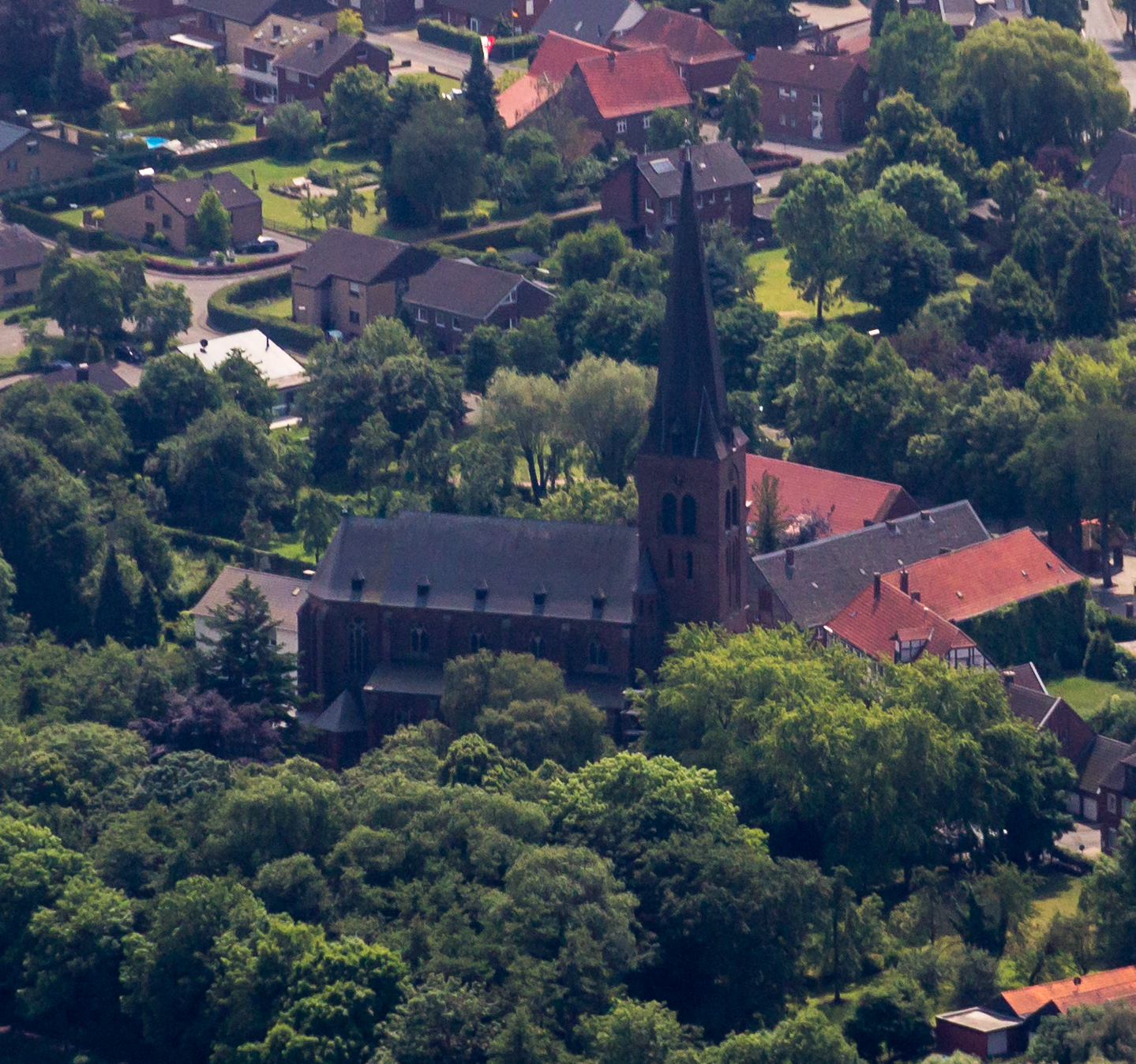 Church in Vorhelm, Ahlen, North Rhine-Westphalia, Germany